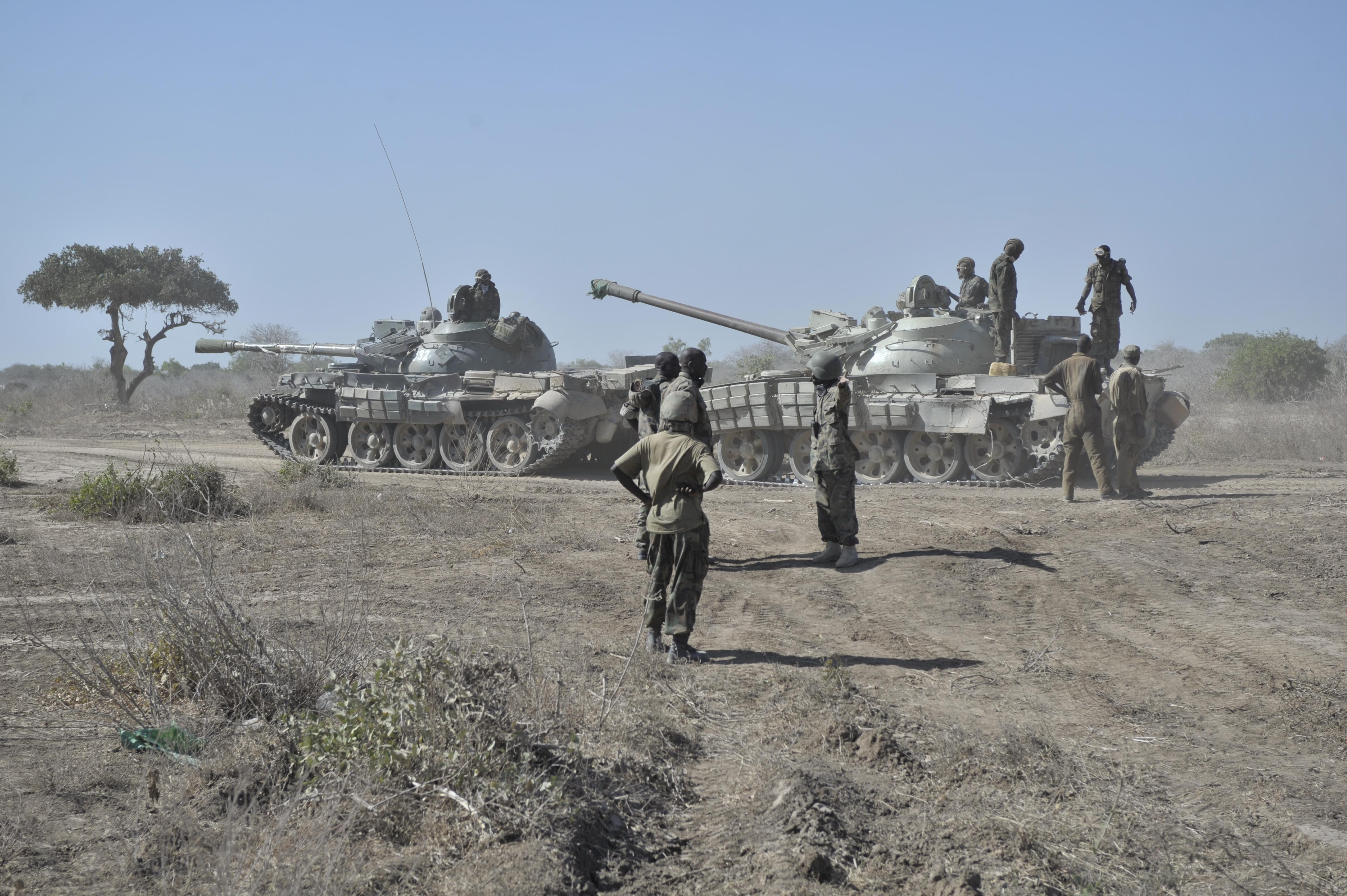 Two tanks stop near Kilometer 60 in Somalia on their way to the frontline on 13 February. Ugandan troops, as part of the African Union Mission in Somalia (AMISOM), advanced with troops from the Somali National Army (SNA) on three towns in the Lower Shabelle region of Somalia in an operation codenamed "Boot on the Ground" on 14 February. All three towns, Janaale, Aw Dheegle, and Barrire, fell to the allied forces with little resistance from the terrorist group Al Shabab. AU UN IST PHOTO / TOBIN JONES